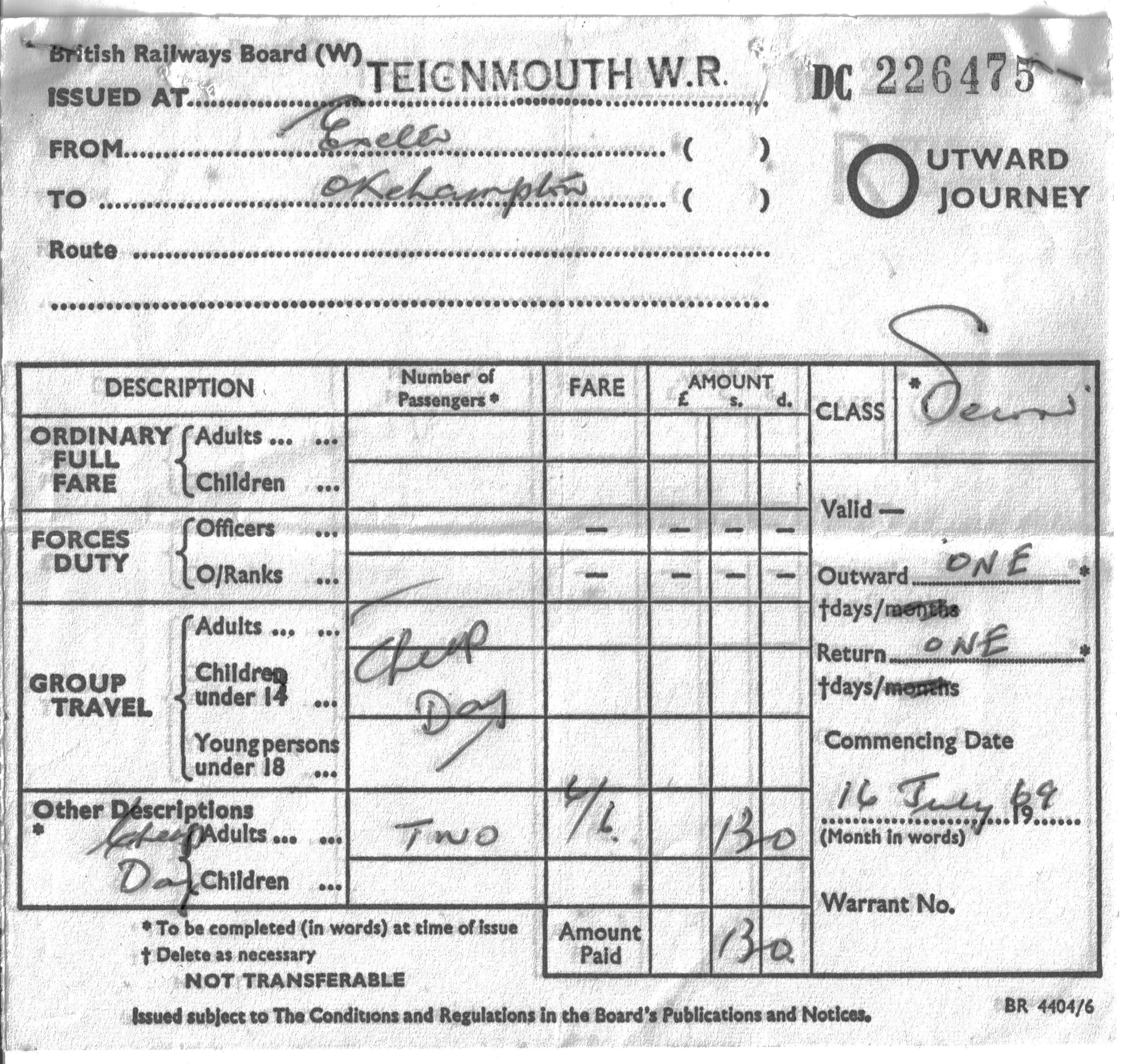 A rail ticket issued at Teignmouth for a journey to Okehampton from Exeter